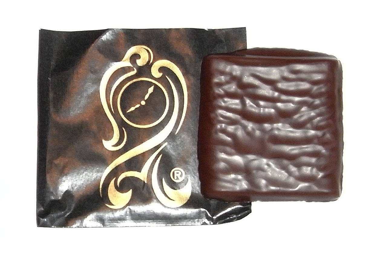 After Eight